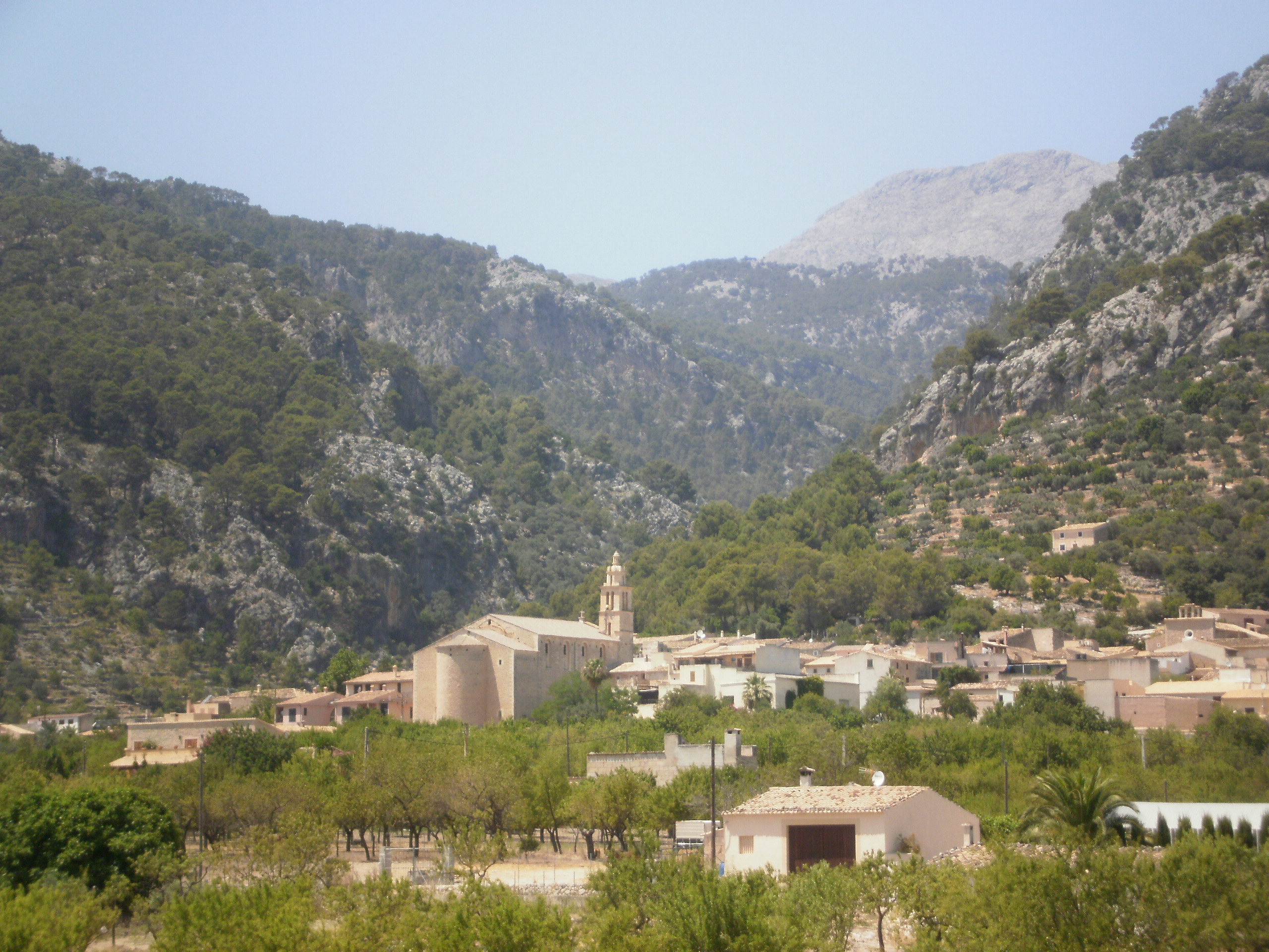 Sightseeing of Caimari (Mallorca).